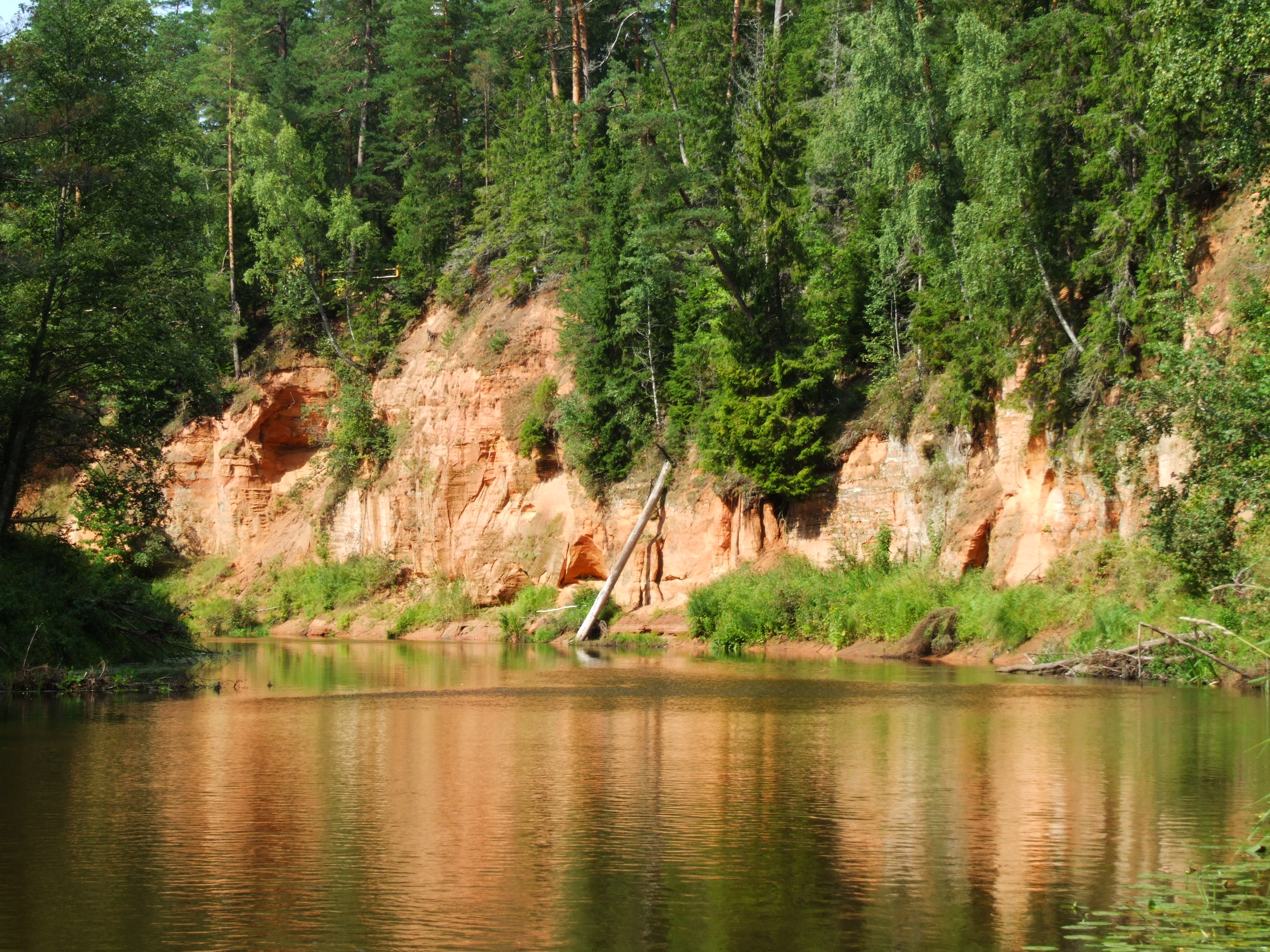 Neļķu klints (Carnation cliff), Salaca rivier